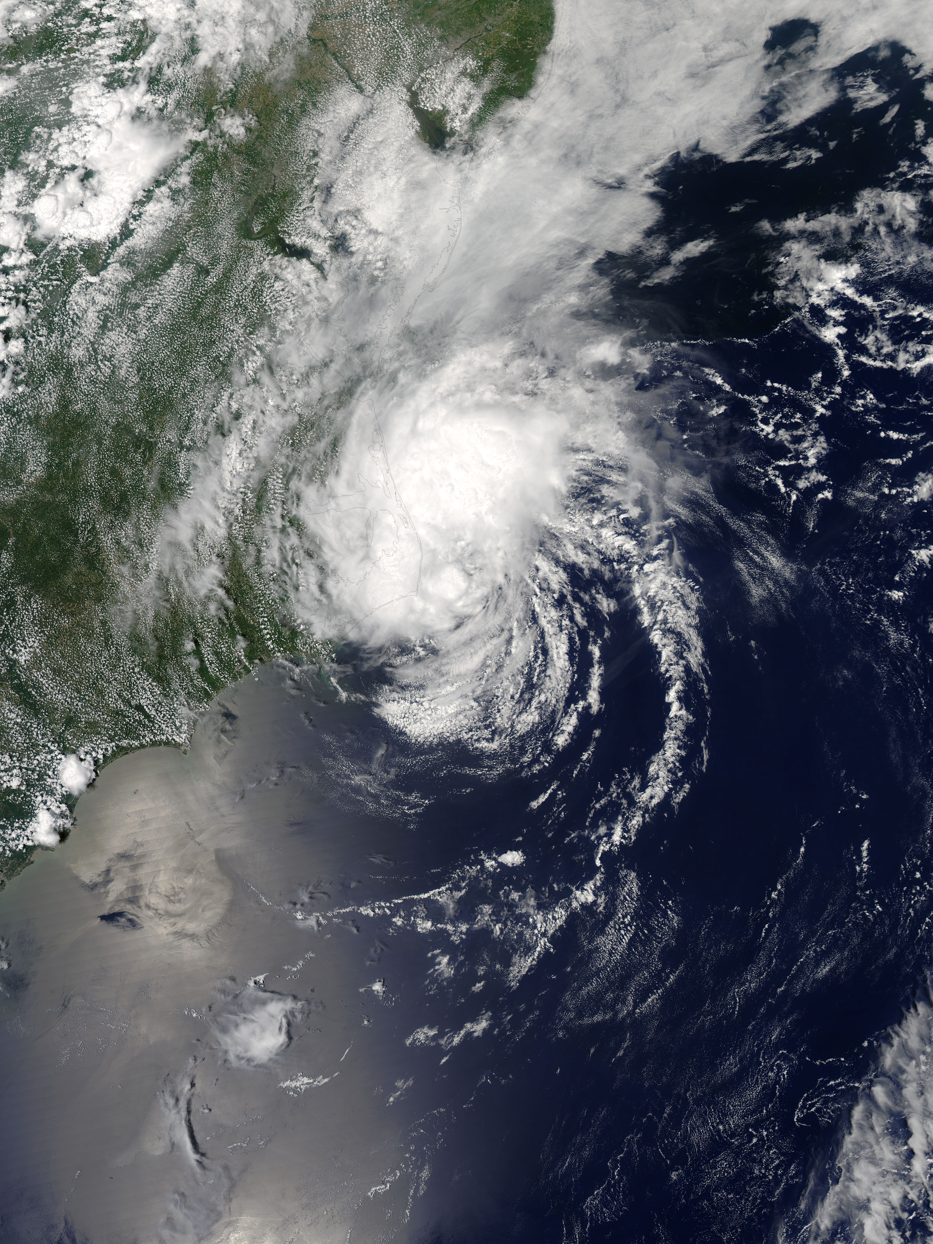 Tropical Depression Bonnie (02L) off the eastern United States